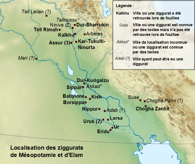 Location maps of cities with ziggurats in Mesopotamia and Elam.